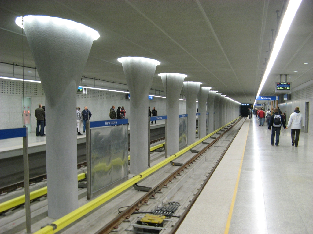 Warsaw Metro, station Wawrzyszew